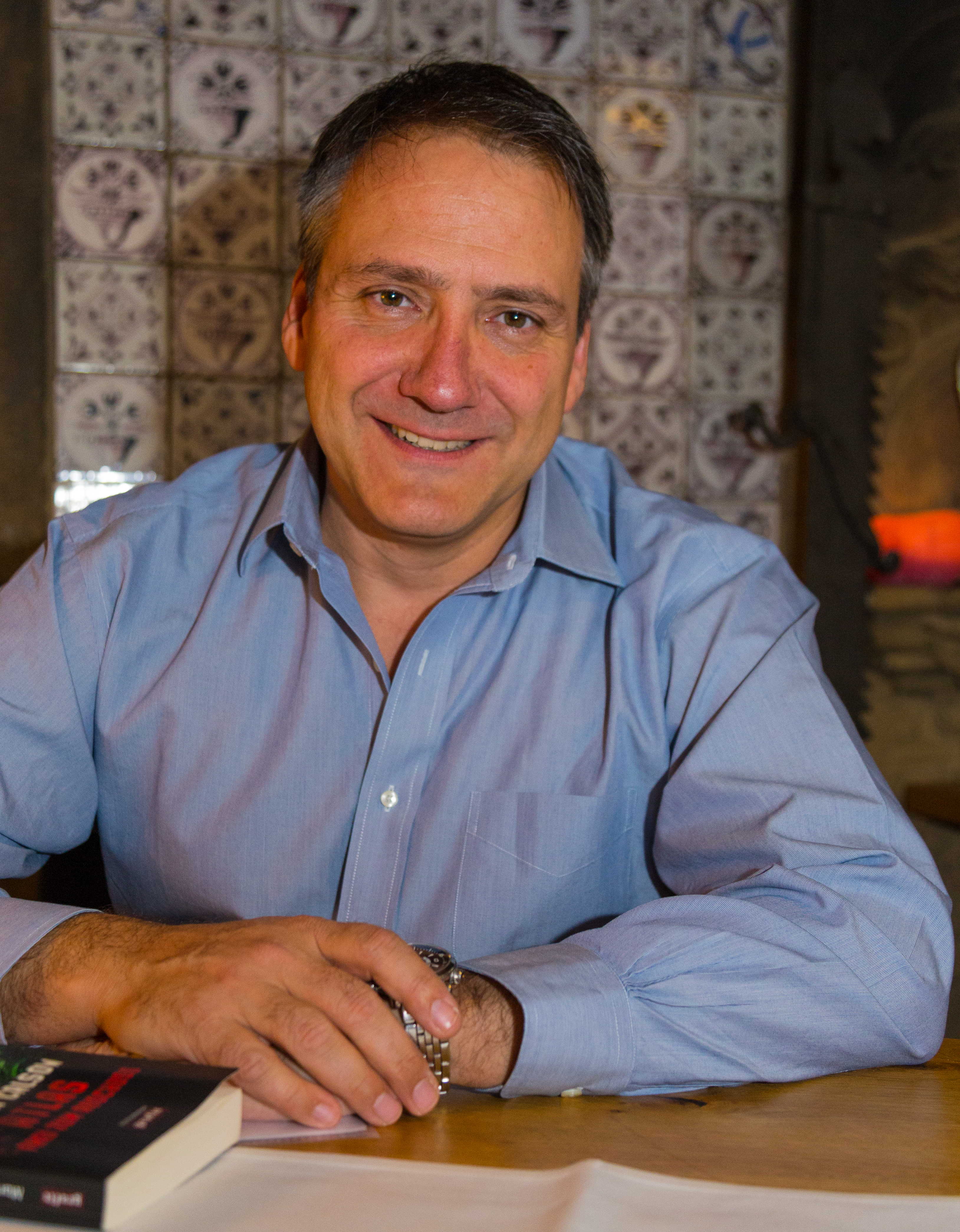 German writer Martin Calsow at the café and restaurant Klosterhof in Bevergern, district of Hörstel, Kreis Steinfurt, North Rhine-Westphalia, Germany. This evening Calsow read from his crime novel Atlas – Frei zum Abschuss.